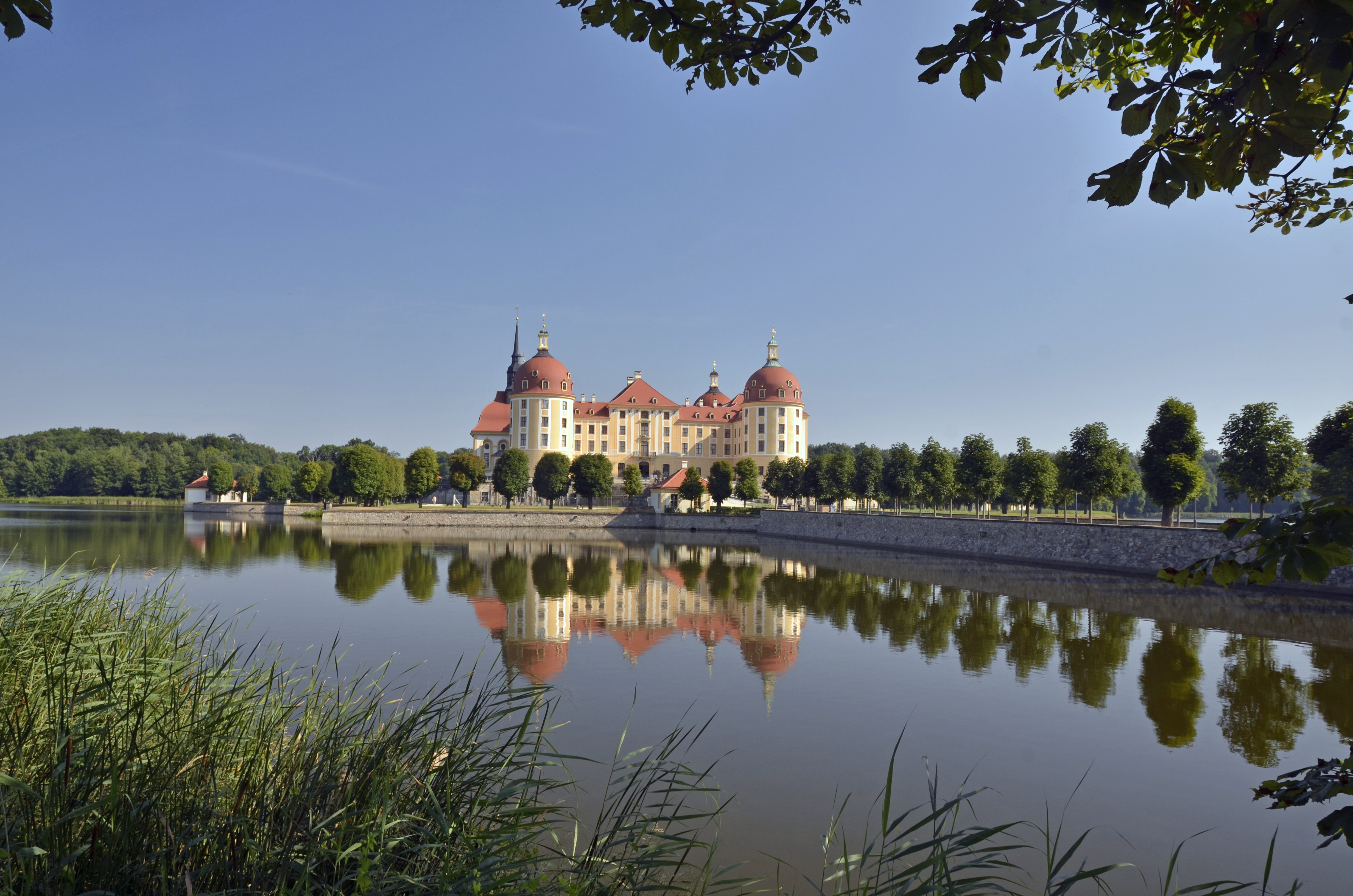 Moritzburg Castle near Dresden in the Morning light